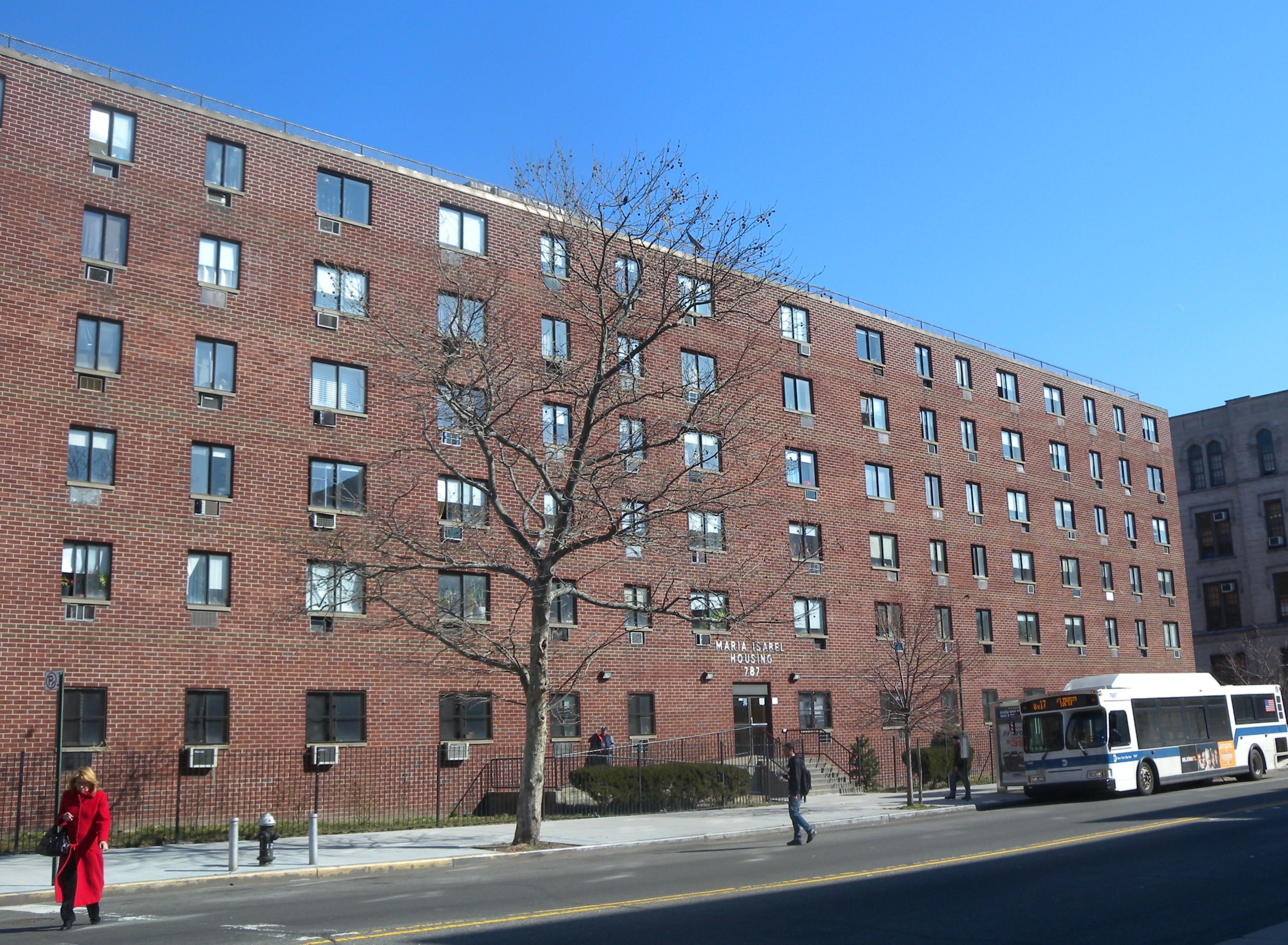 Looking east across 149th Street at a Section 8 project on a sunny morning.